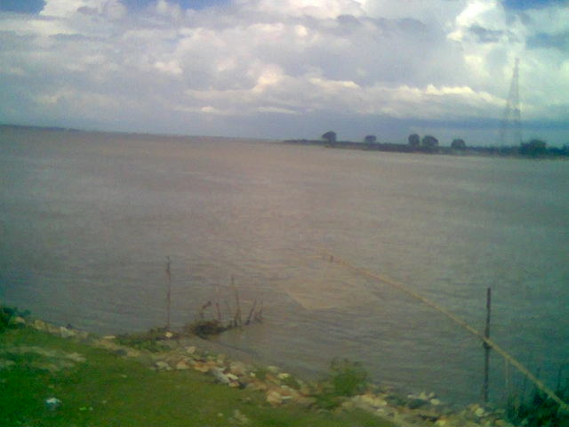 Image taken with Nokia6020